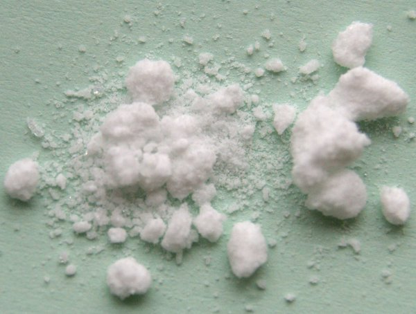 Molybdenum hexacarbonyl powder